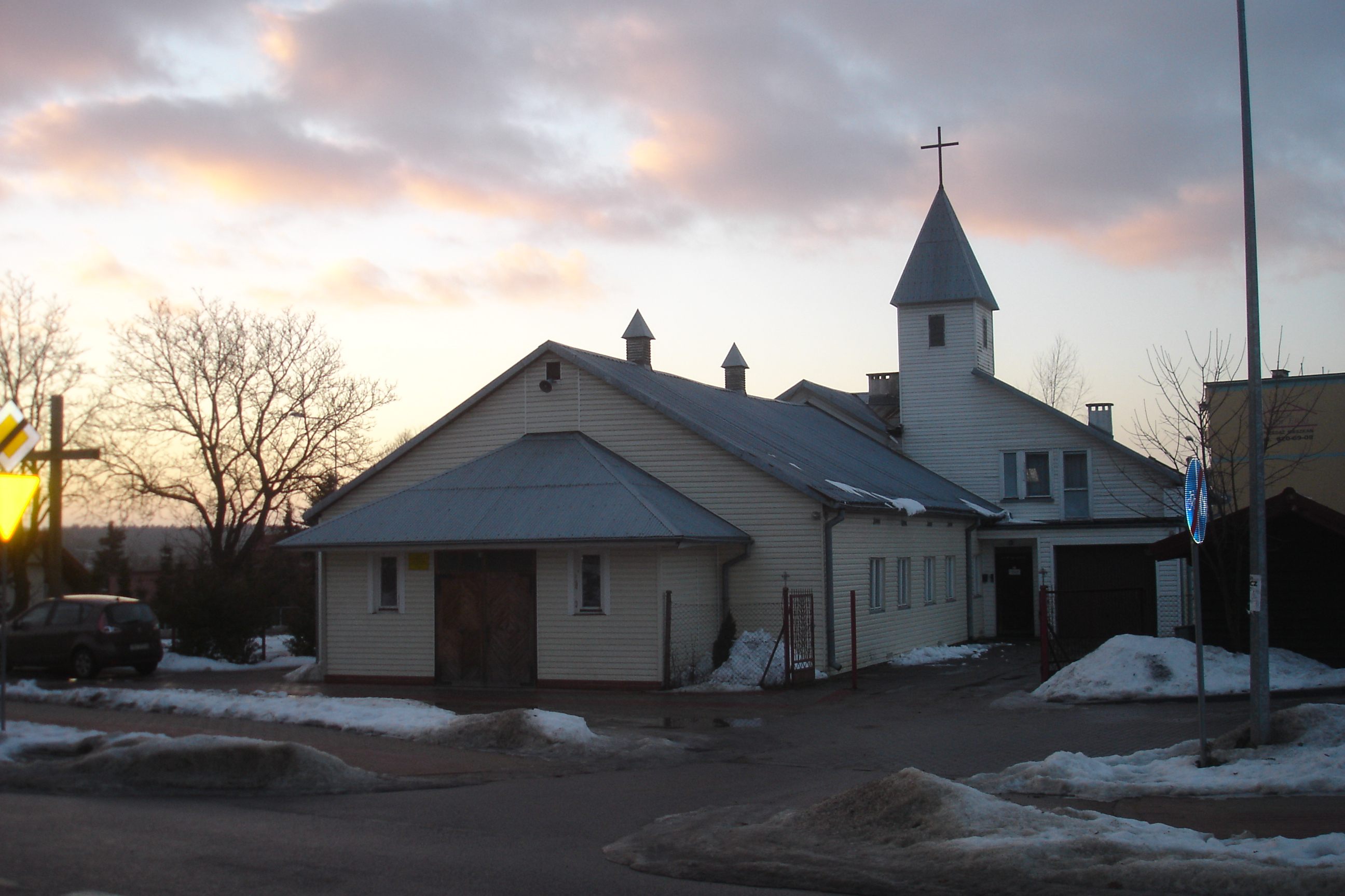 Parafia sw. Tomasza Apostola w Elku